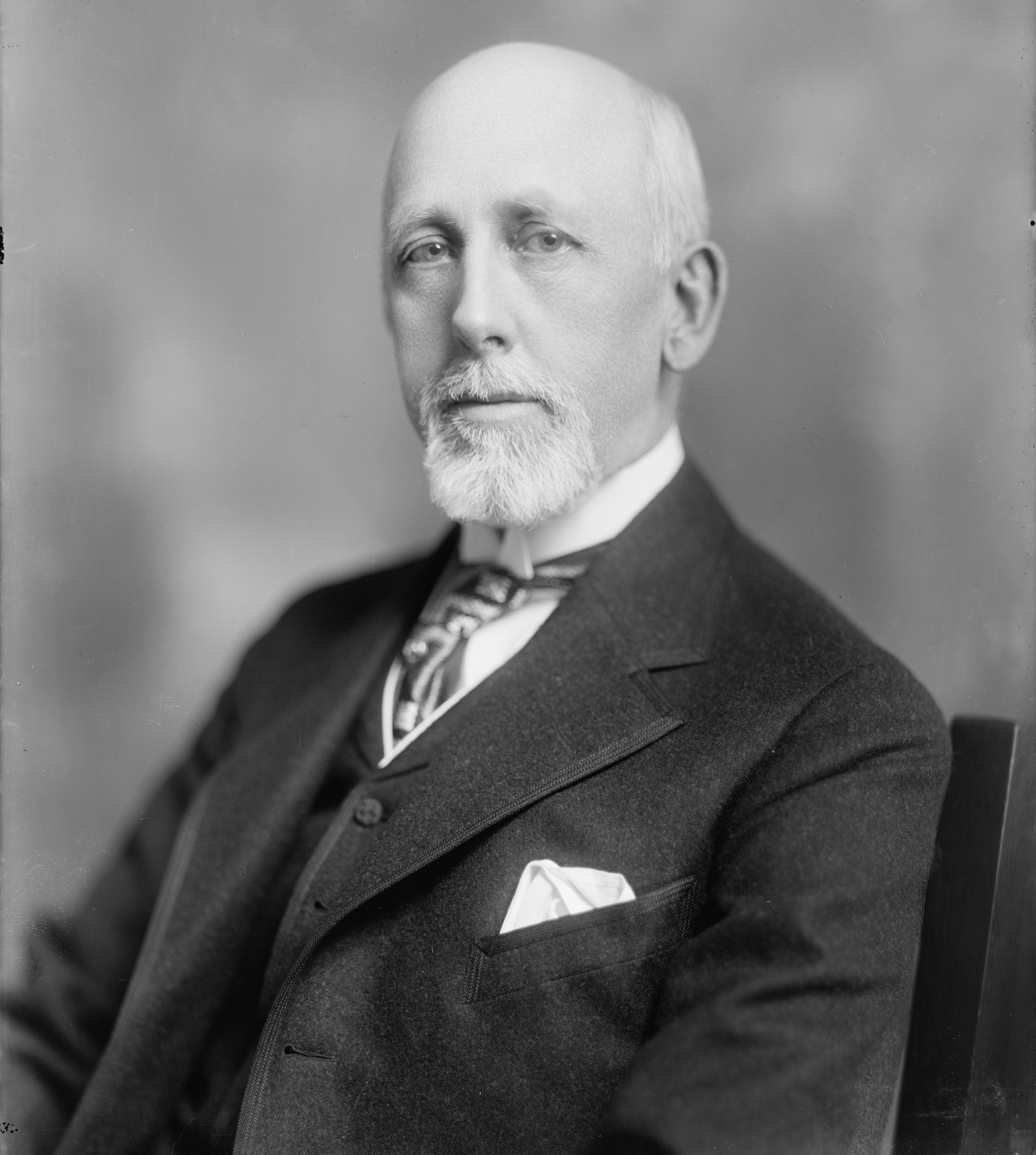 U.S. Congressman Robert Freeman Hopwood circa 1915